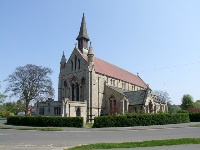 St Matthew, Skegness The church was built to be the centrepiece of the new seaside resort of Skegness developed by the Earl of Scarborough in 1879. The architect, James Fowler, followed the Gothic style, but due to unsuitable foundations could not include a bell tower. This explains the west turret which houses a peal of six tubular bells. An interesting variety of local skills and occupations are reflected in the windows of the two aisles. The organ, built by Rushworth and Dreaper, plus additions to the swell organ and pedal organ, have achieved the original specification of 1929. The parish now has one of the finest organs in Lincolnshire. During recent years, a glass screen has enabled the creation of an open area.